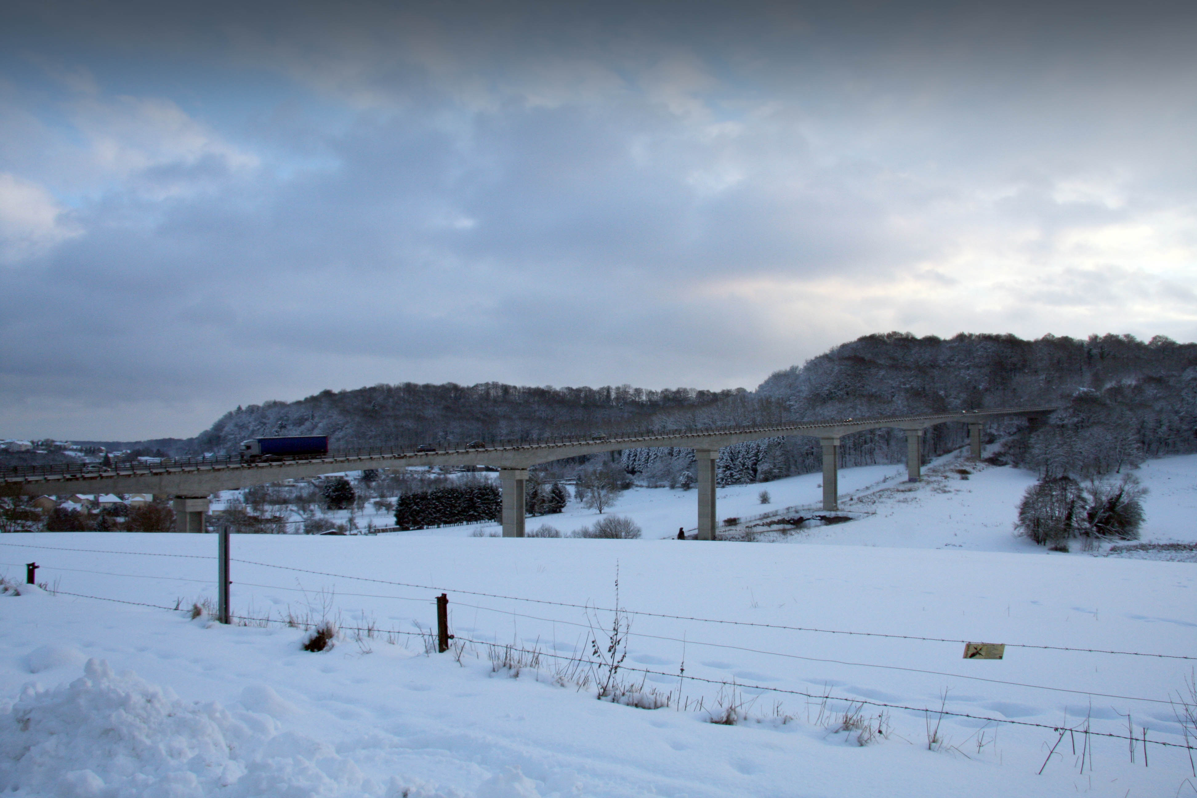 The Piedmont's bridge